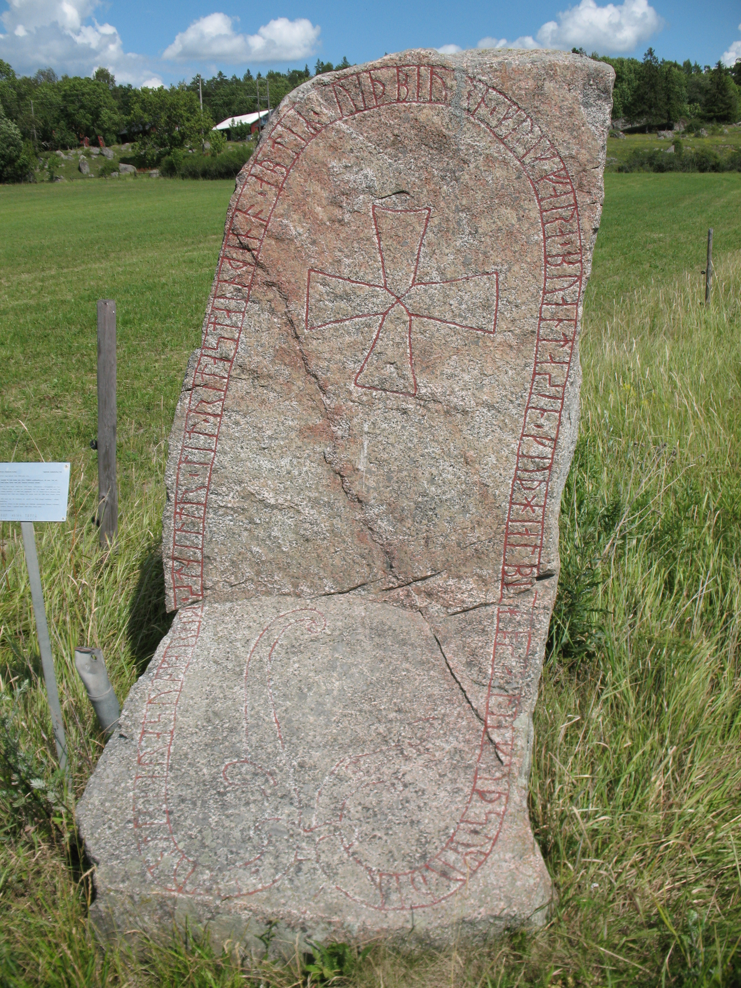 Runestone U 956 near the road at Vedyxa near Uppsala, Sweden.